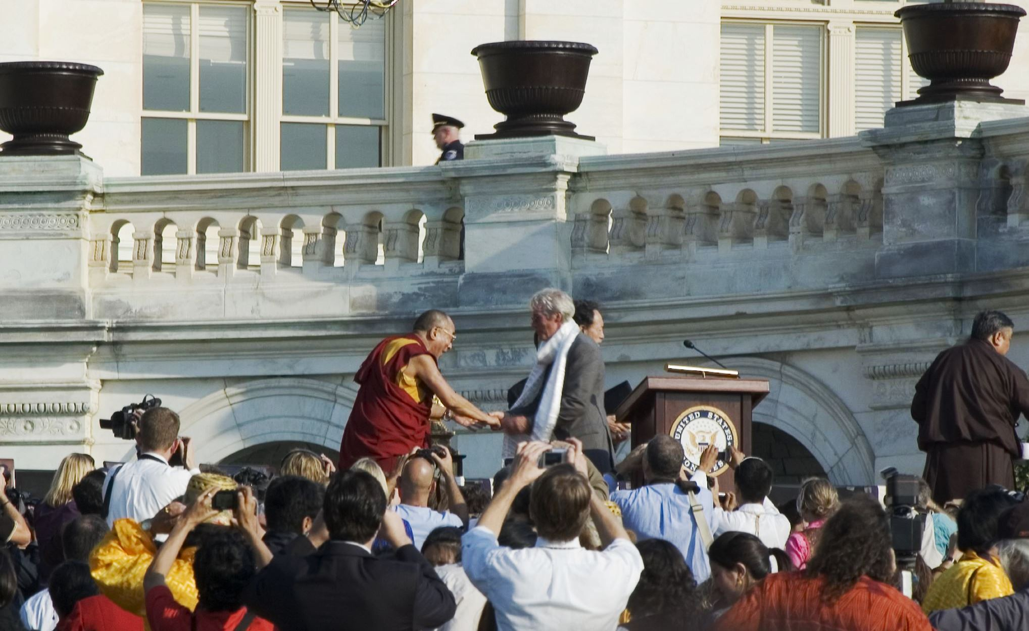 The Congressional Gold Medal and the Presidential Medal of Freedom are the highest civilian awards in the United States.